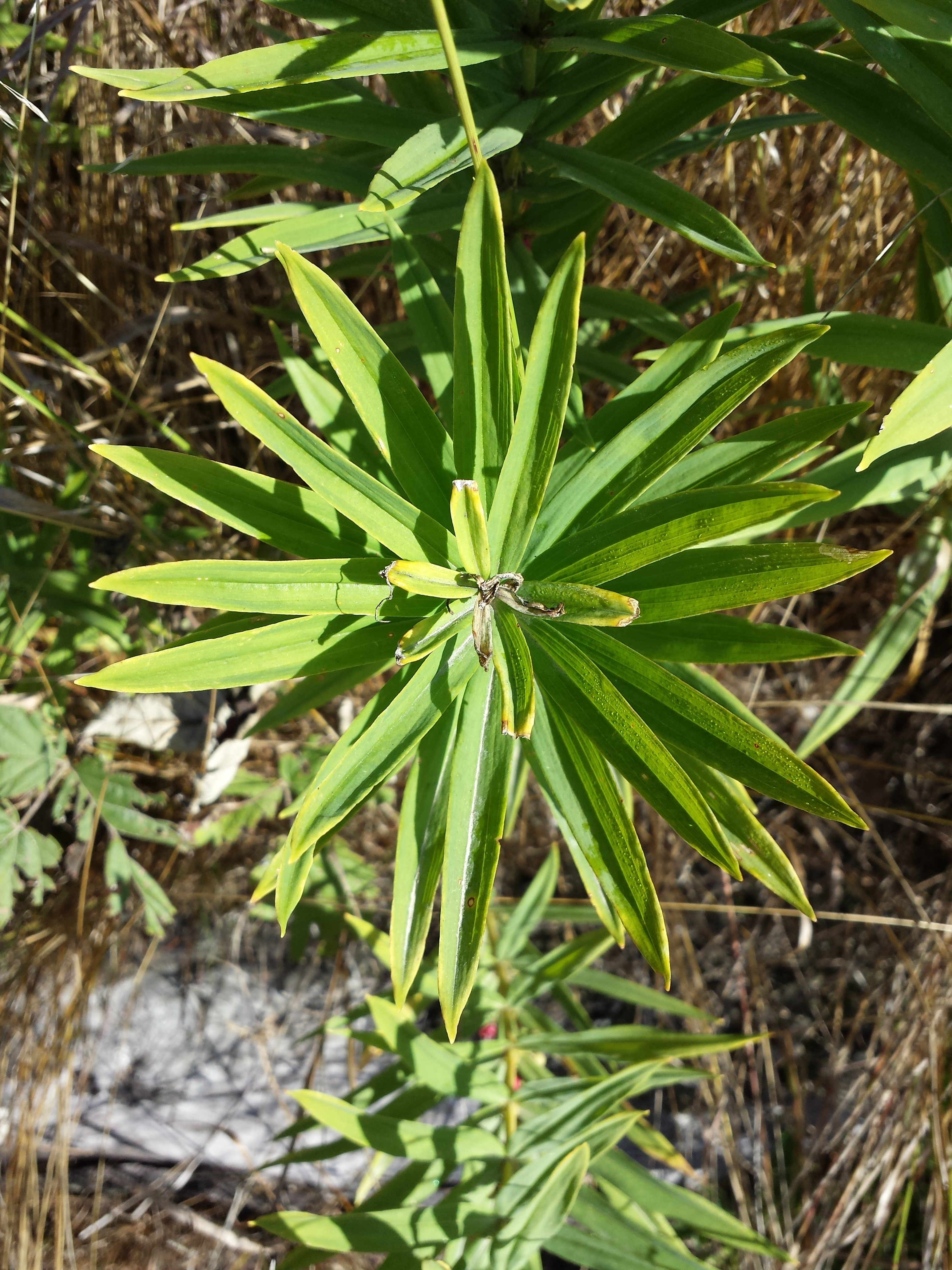 Arrangement of leaves Taxonym: Polygonatum verticillatum ss Fischer et al. EfÖLS 2008 ISBN 978-3-85474-187-9 Location: Tannermoor near Liebenau, district Freistadt, Upper Austria - ca. 930 m a.s.l. Habitat: wayside